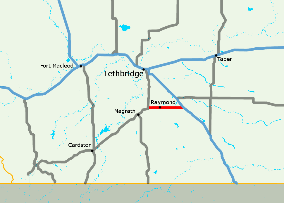 Alberta Highway 52 - created with OpenStreetMap